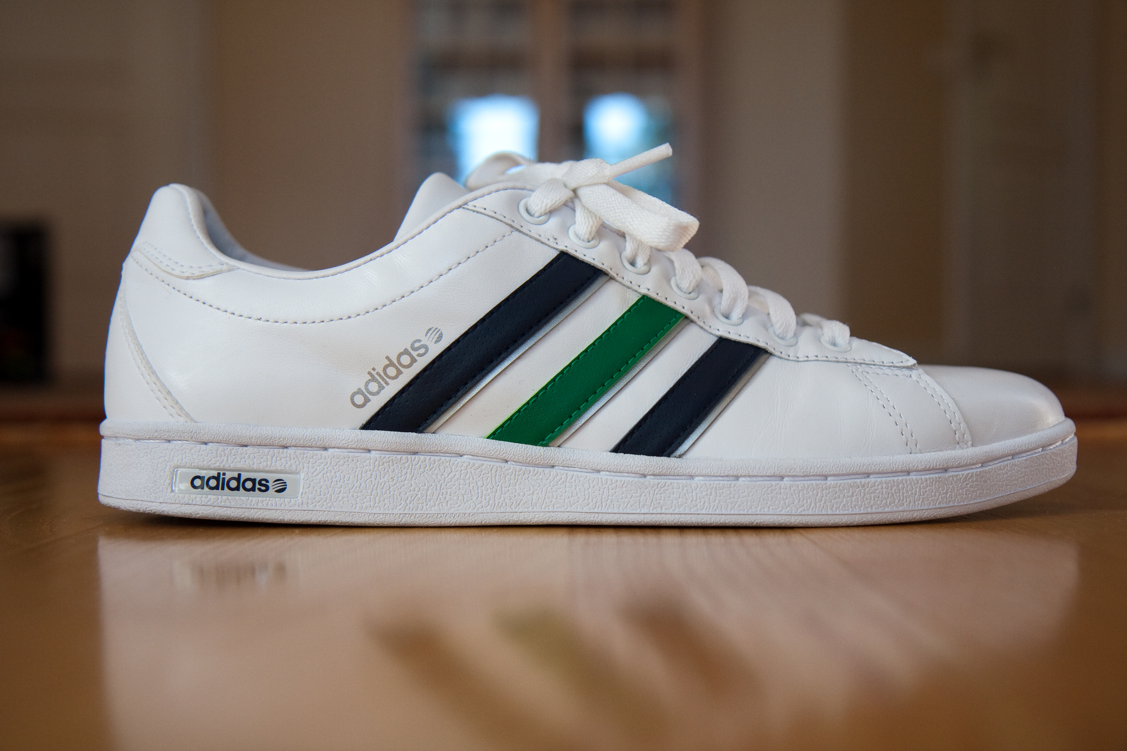 An Adidas shoe with its trademark design-the three lines on the outside